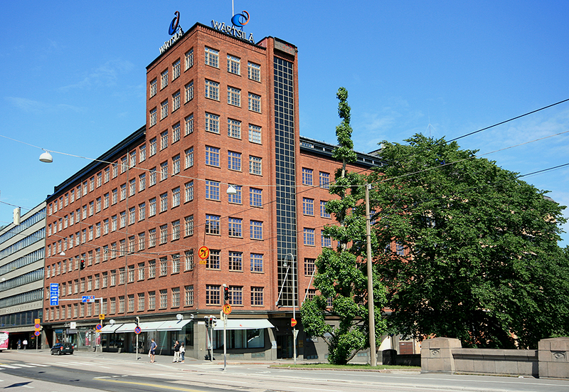 Wärtsilä headquarters, John Stenbergin ranta 2, Helsinki.